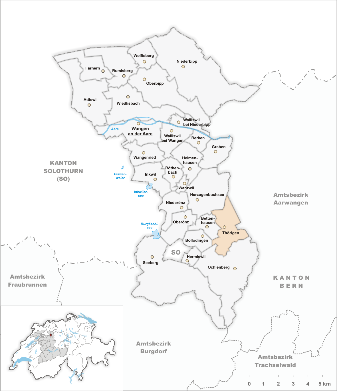 Municipality Thörigen